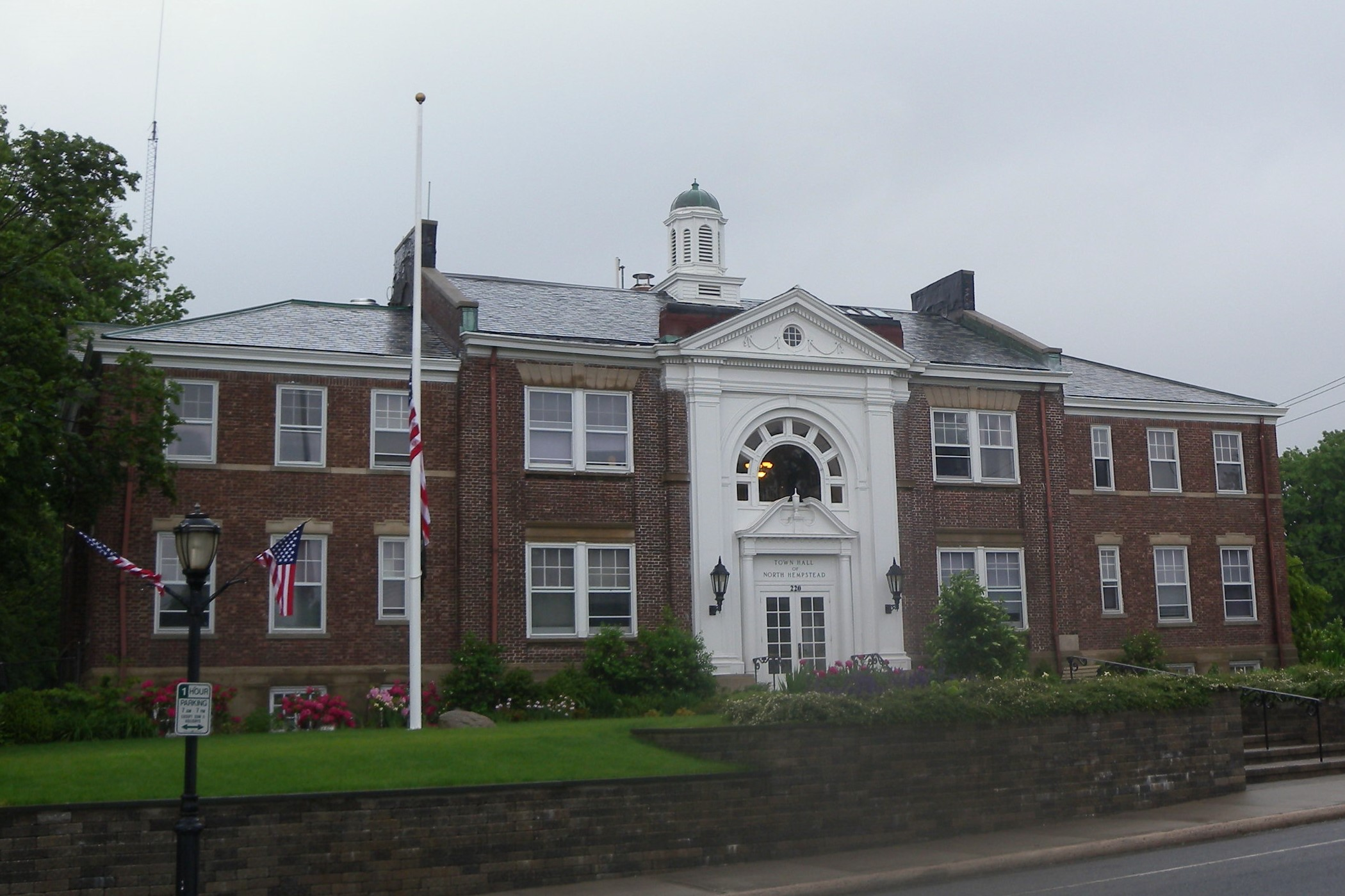 Looking southeast across Plandome Road at Town Hall on a rainy morning.